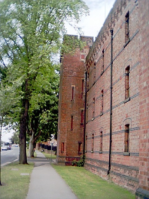 Walls of Imphal Barracks, Fulford. Named for the Nagaland campaign against the Japanese in WWII.